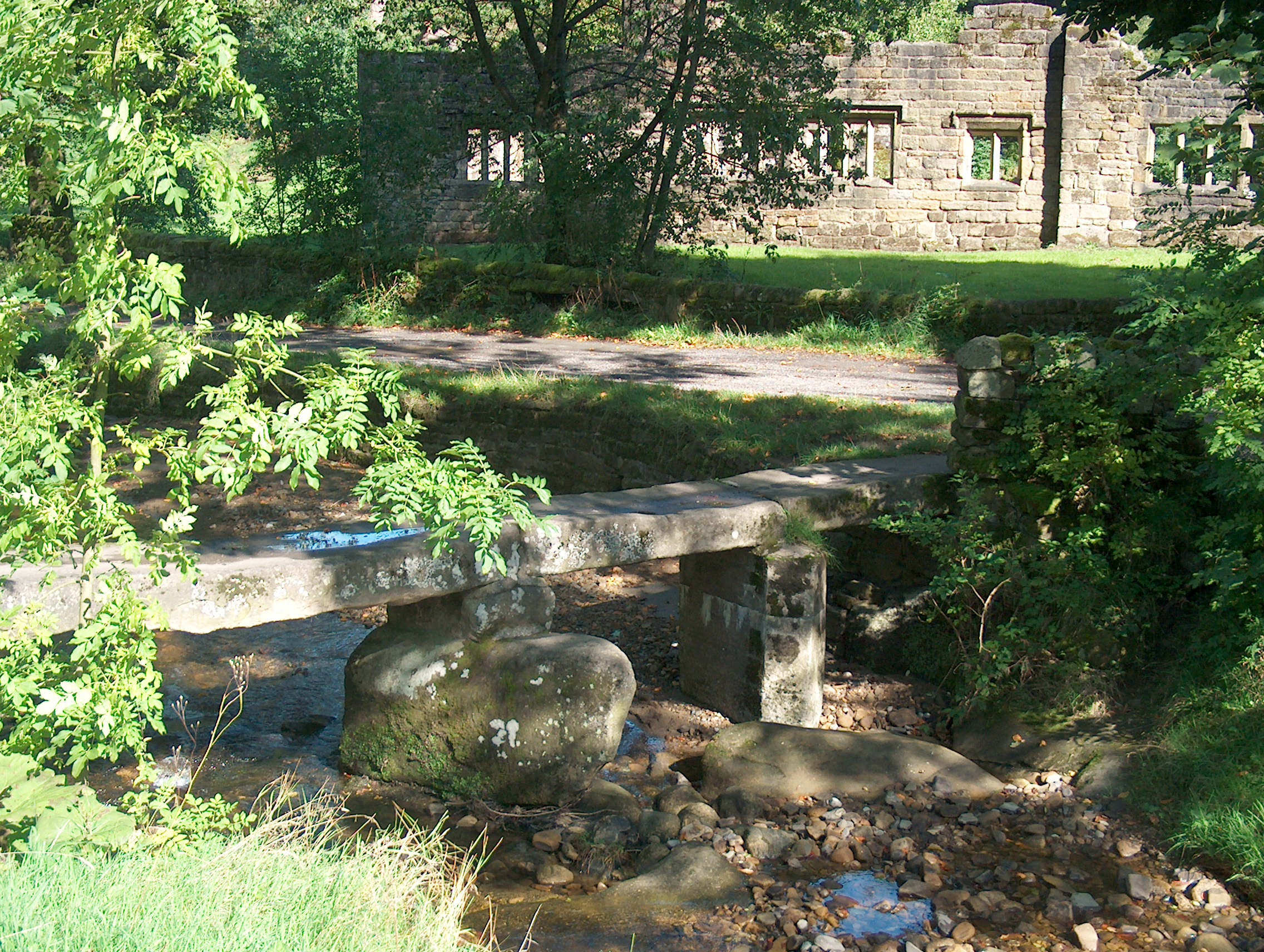 The Hall Bridge or Weavers' Bridge across Wycoller Beck at Wycoller, Lancashire. Beyond is part of the ruin of Wycoller Hall.